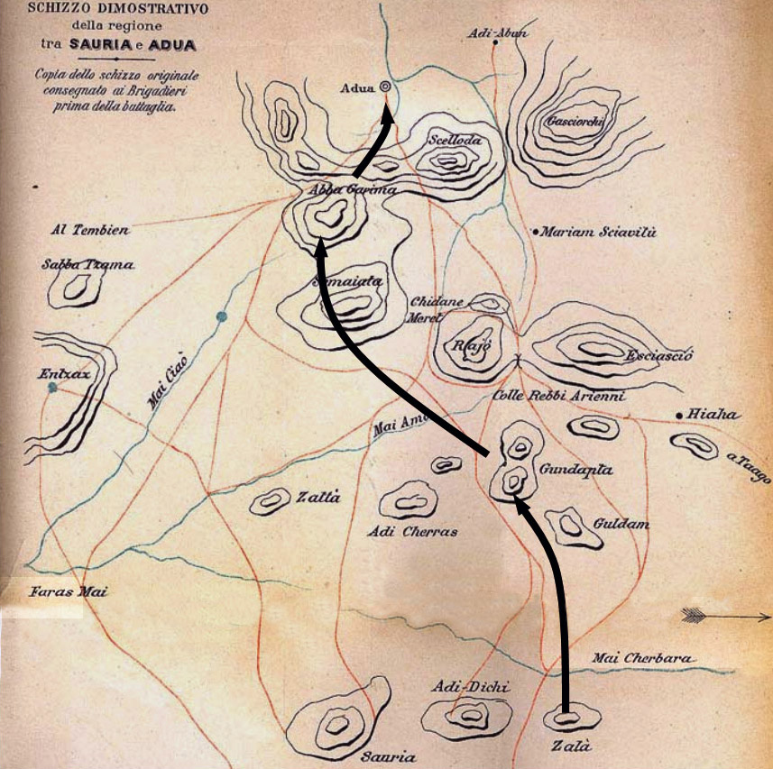 Movements of troops of Menelik II in the days before the battle of Adwa, 1896 - derivative from Baratieri Map according to Tsegaye Tegenu, « The Logistic Base and Military Strategy of the Ethiopian Army: the Campaign and Battle of Adwa, September 1895-February 1896 », 1997